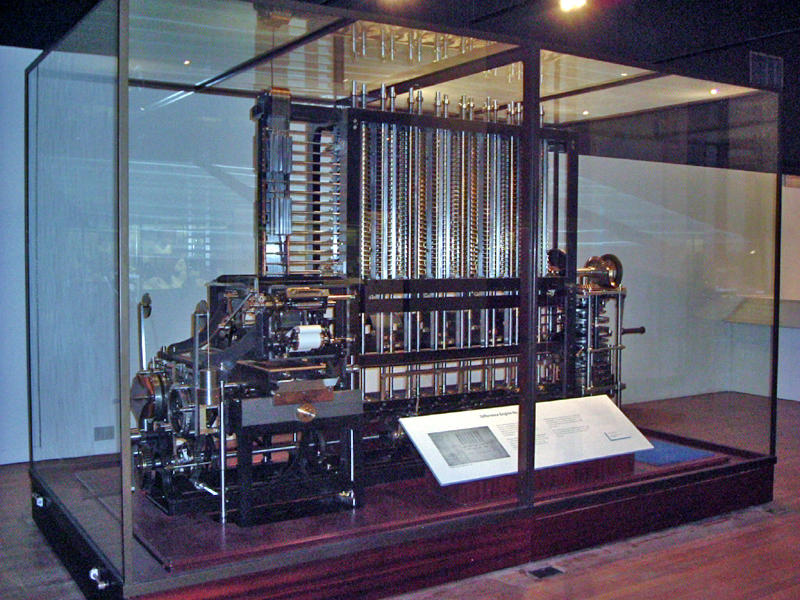 Difference engine at the Science Museum, London, by Joe D in January 2005.